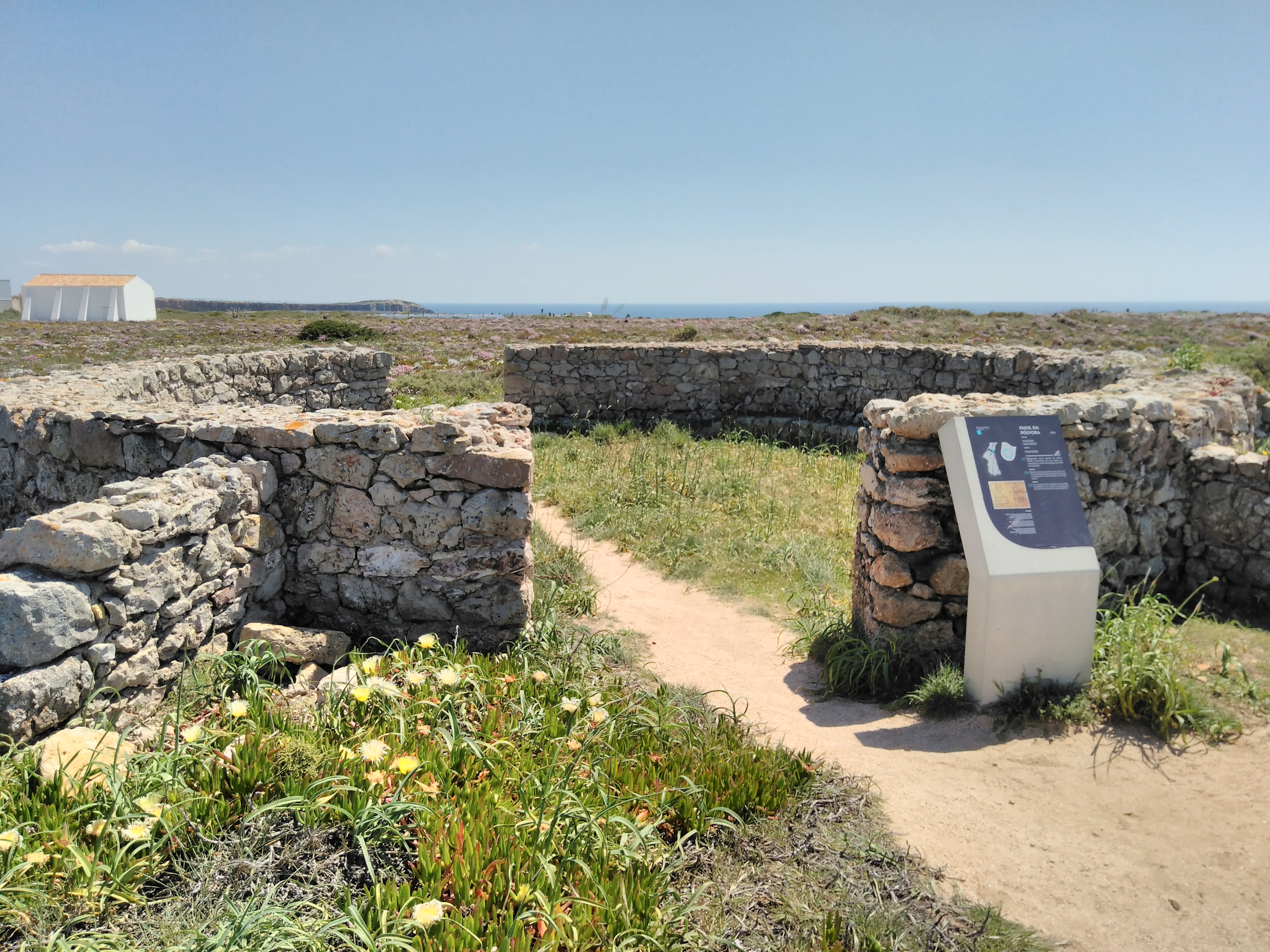 Panorama of Paiol